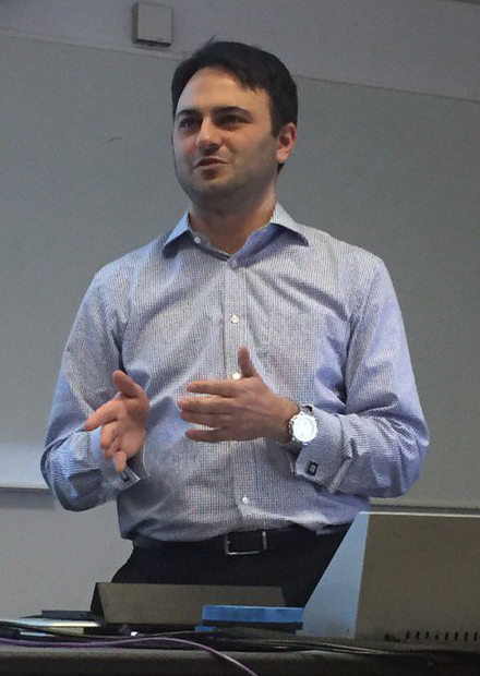 Singh giving a talk to the University of Exeter Politics Society in 2016